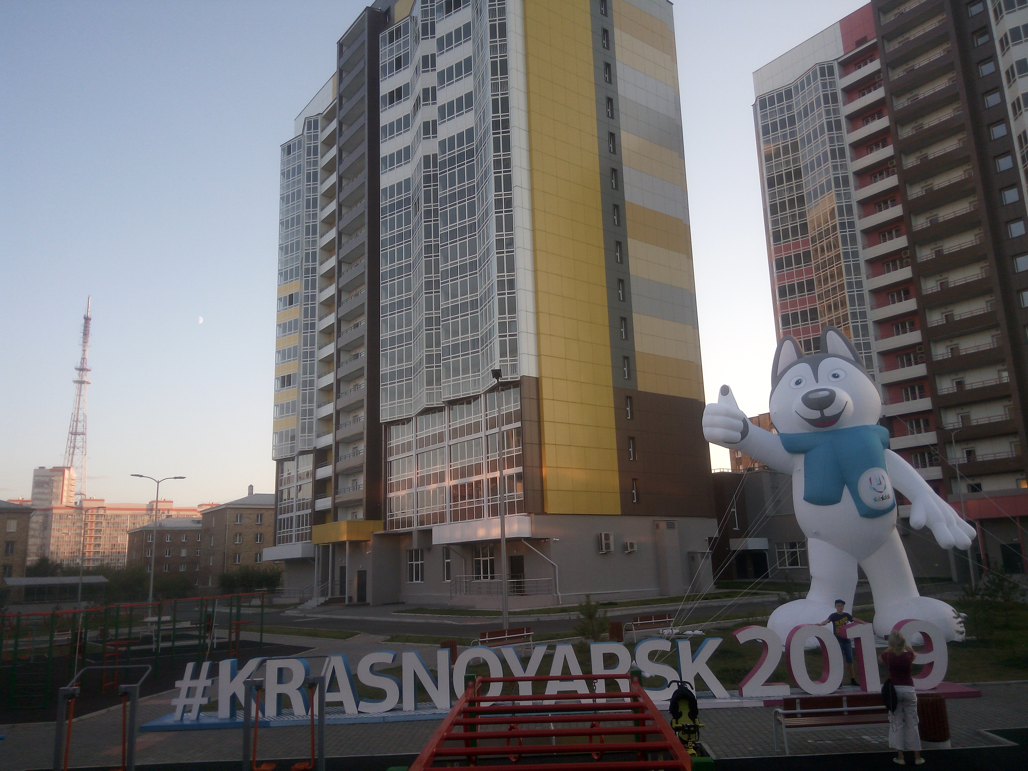 Krasnoyarsk, hostels for en:2019 Winter Universiade participants